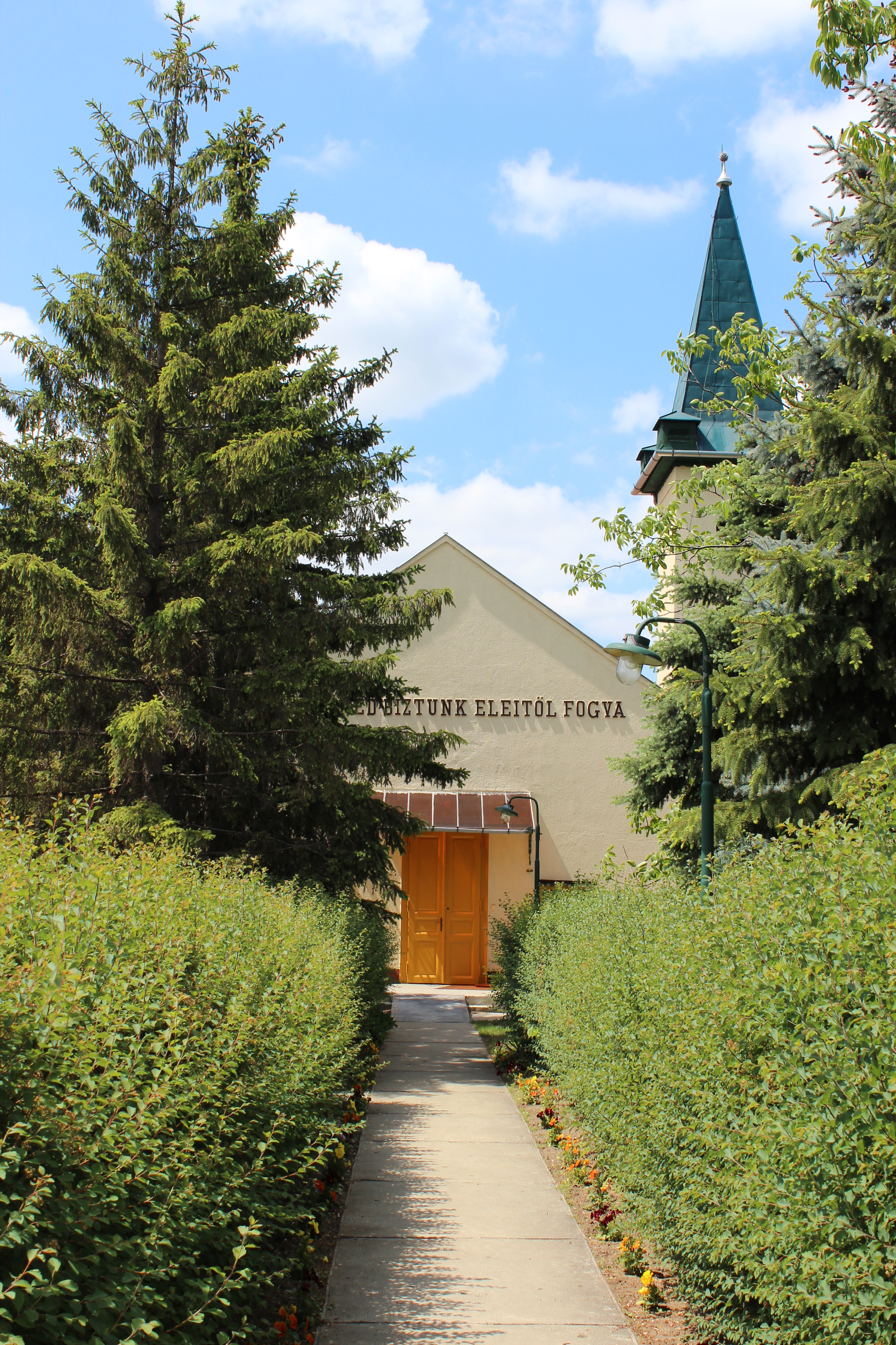 Reformed church in Rákosliget